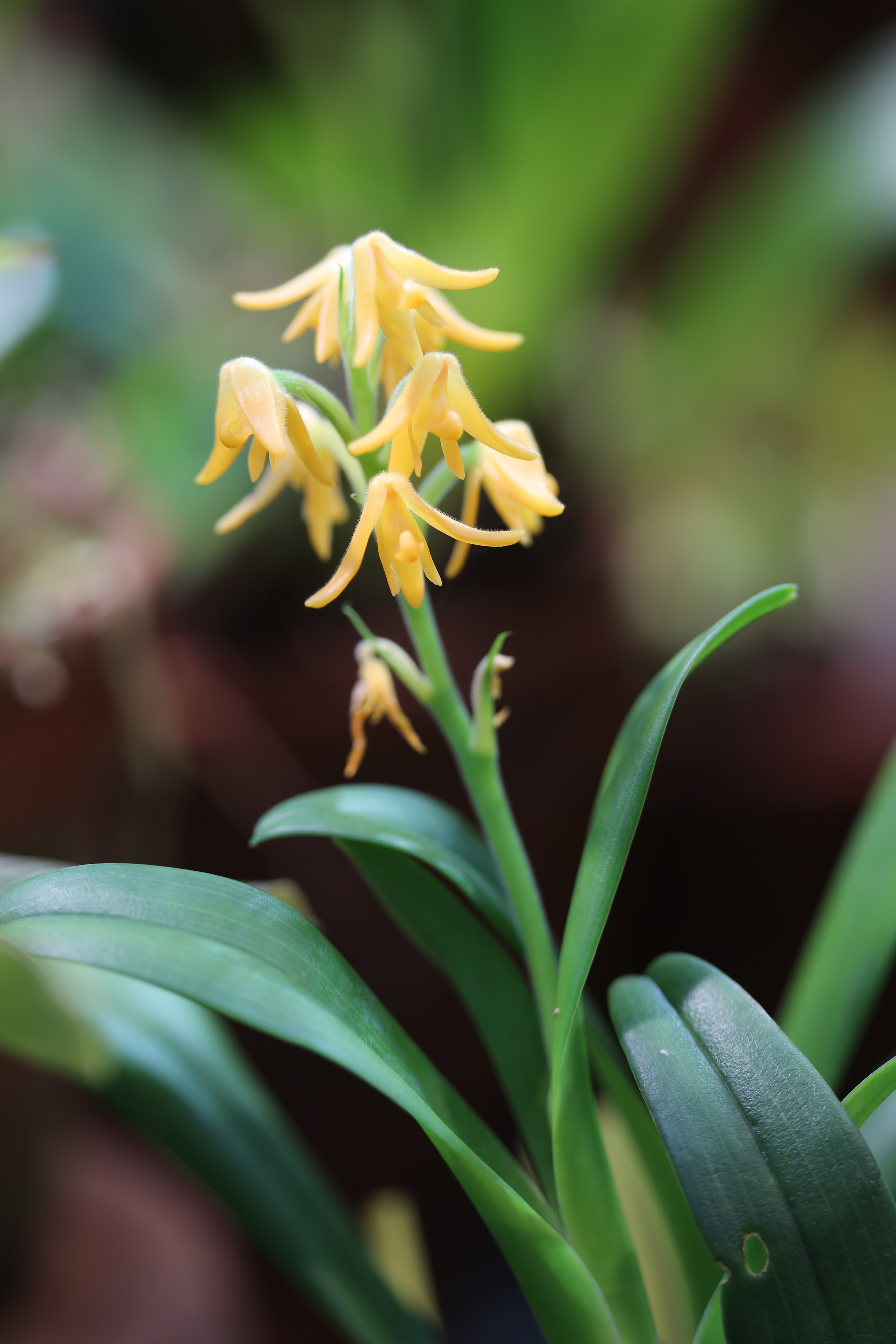 Polystachya bella at Gothenburg botanical garden in 2015. Plant id: 1989-V0545 p G -- Christ., H